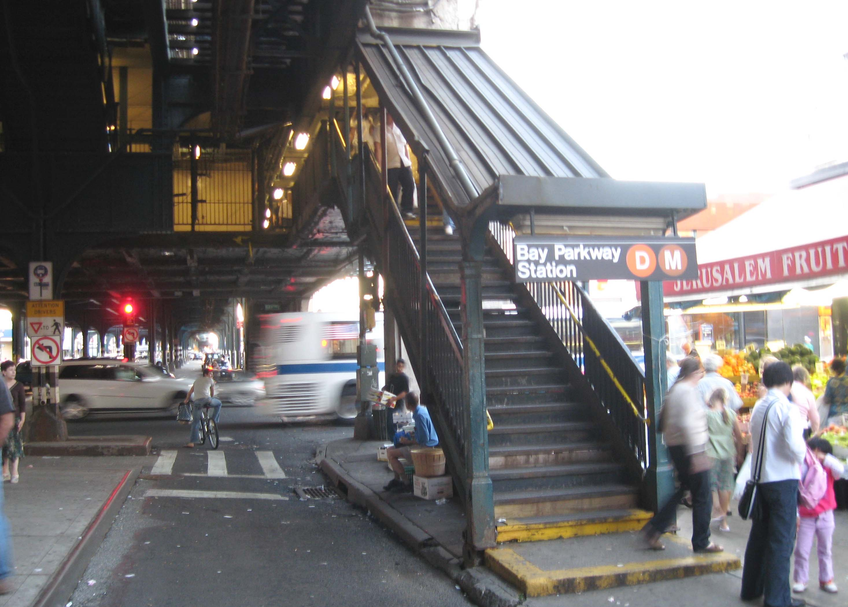 Bay Parkway (BMT West End Line) street stair on a sunny late afternoon. ZIP 11214.